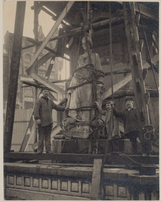 In 1856, a war memorial named De Eendracht (The Unity) was unveiled inside the square before King William III. A stone column with a female statue on top, the monument acquired the nickname "Naatje of the Dam". It was taken down in 1914.